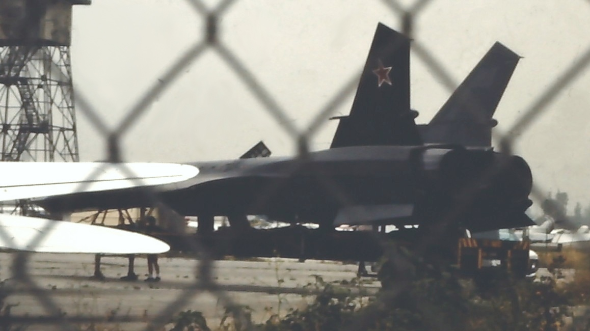 Full-scale MiG 31 Firefox model used in the film "Firefox" parked at Van Nuys Airport, California in May 1982